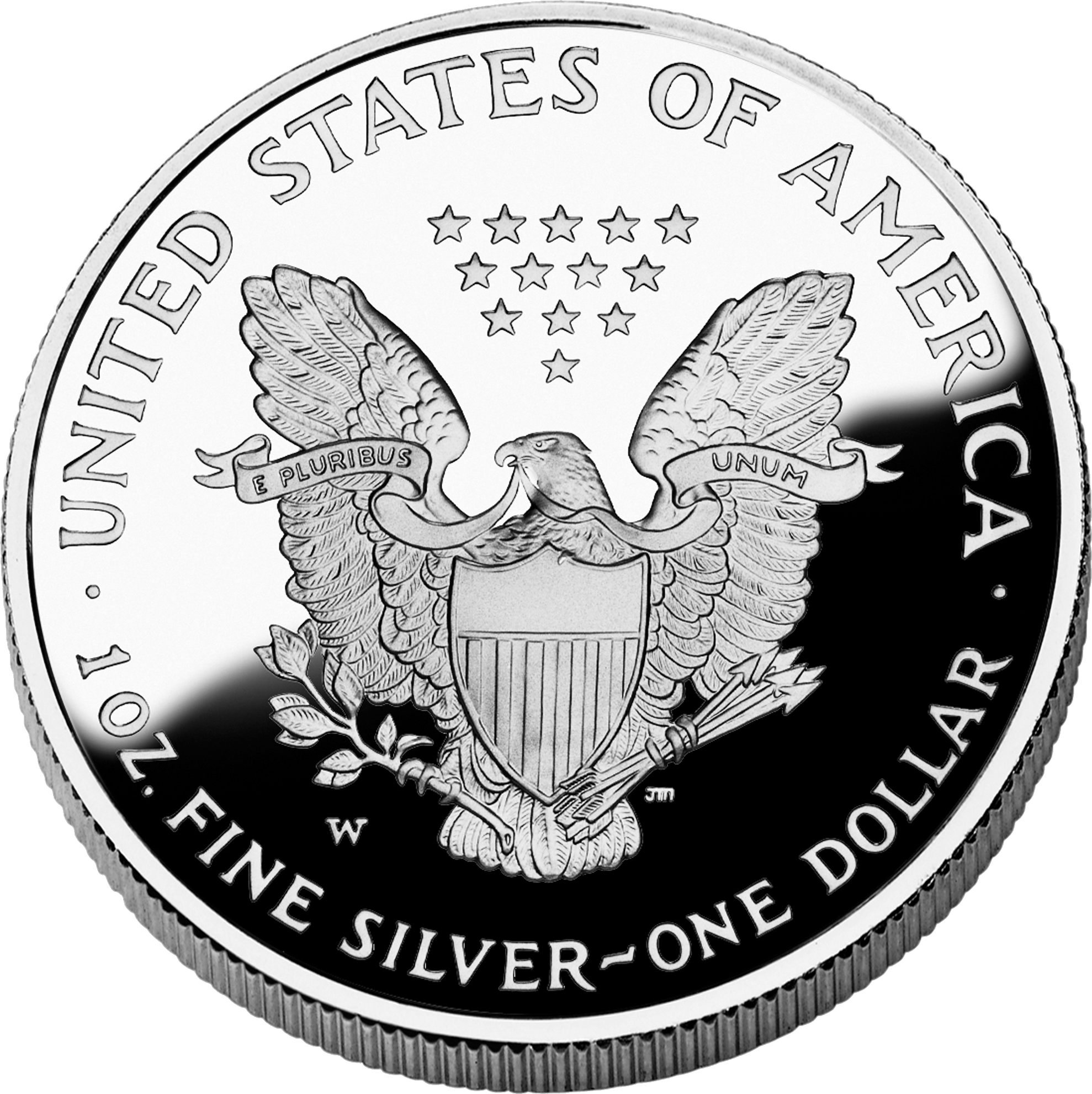 Removed background, cropped, and converted to PNG with Macromedia Fireworks. This image depicts a unit of currency issued by the United States of America. If Fraudulent use of this image is punishable under applicable counterfeiting laws. As listed by the United States Secret Service at money illustrations, the Counterfeit Detection Act of 1992, Public Law 102-550, in Section 411 of Title 31 of the Code of Federal Regulations (31 CFR 411), permits color illustrations of U.S. currency provided:1. The illustration is of a size less than three-fourths or more than one and one-half, in linear dimension, of each part of the item illustrated;2. The illustration is one-sided; and3. All negatives, plates, positives, digitized storage medium, graphic files, magnetic medium, optical storage devices, and any other thing used in the making of the illustration that contain an image of the illustration or any part thereof are destroyed and/or deleted or erased after their final use. Certain coins contain copyrights licensed to the U.S. Mint and owned by third parties or assigned to and owned by the U.S. Mint [1]. For the United States Mint circulating coin design use policy, see [2]; for the policy on the 50 State Quarters, see [3]. Also: COM:ART #Photograph of an old coin found on the Internet